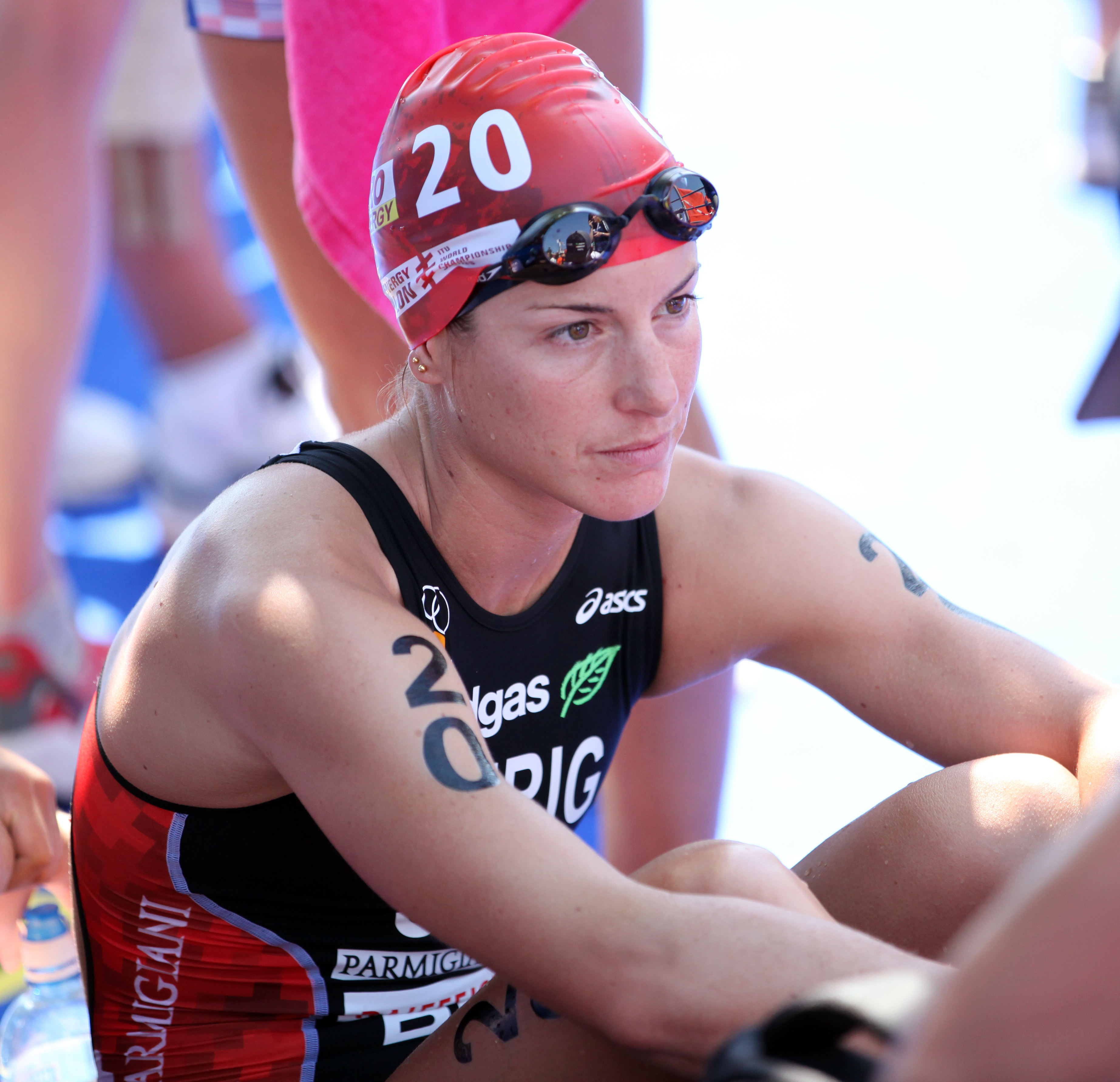 Nicola Spirig waiting in the heat for the start at the Sprint World Championships in Lausanne.